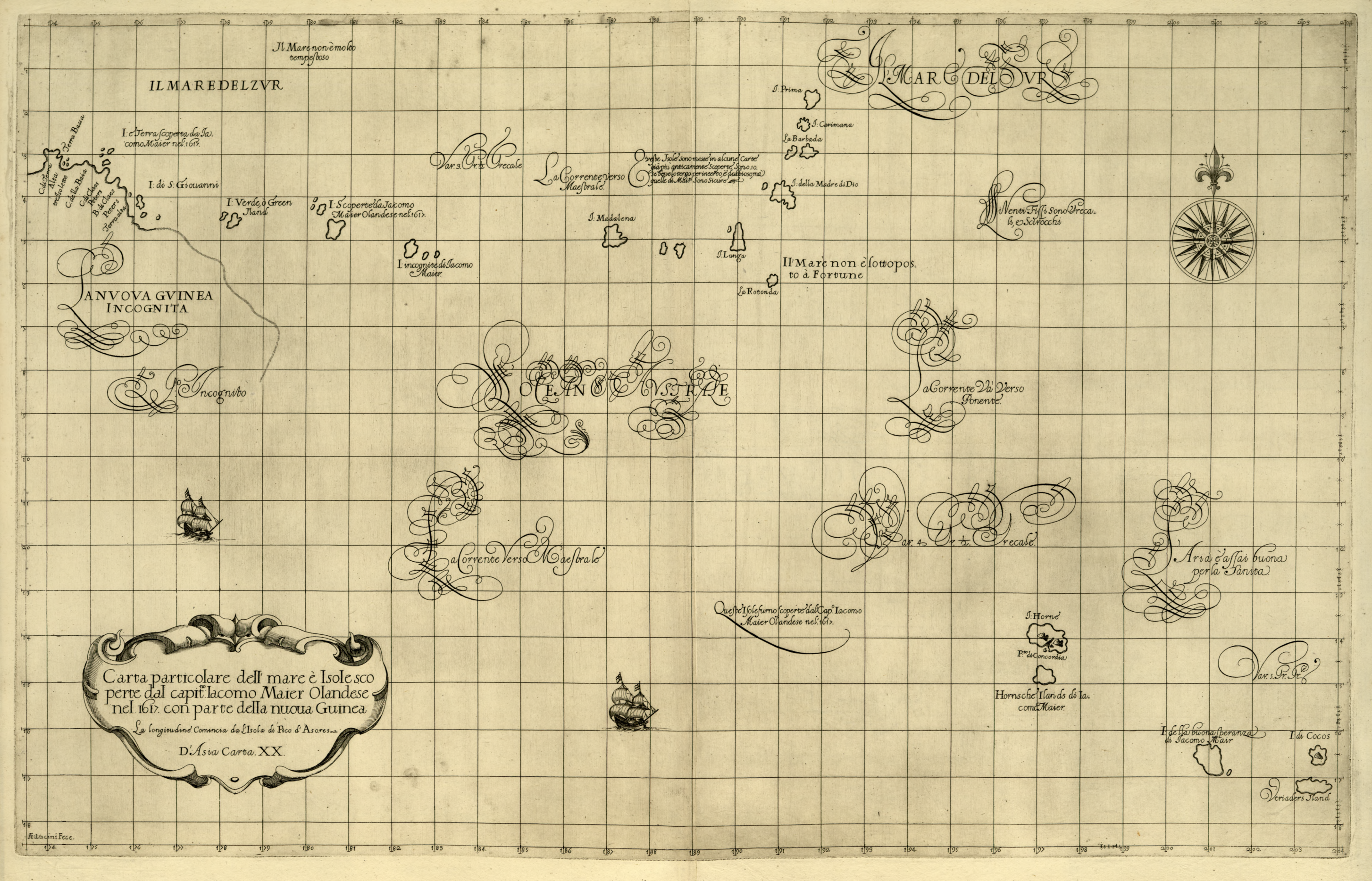 map showing islands discovered by Jacob Le Maire in 1616 in the South Pacific, from Robert Dudley's Dell'Arcano del Mare